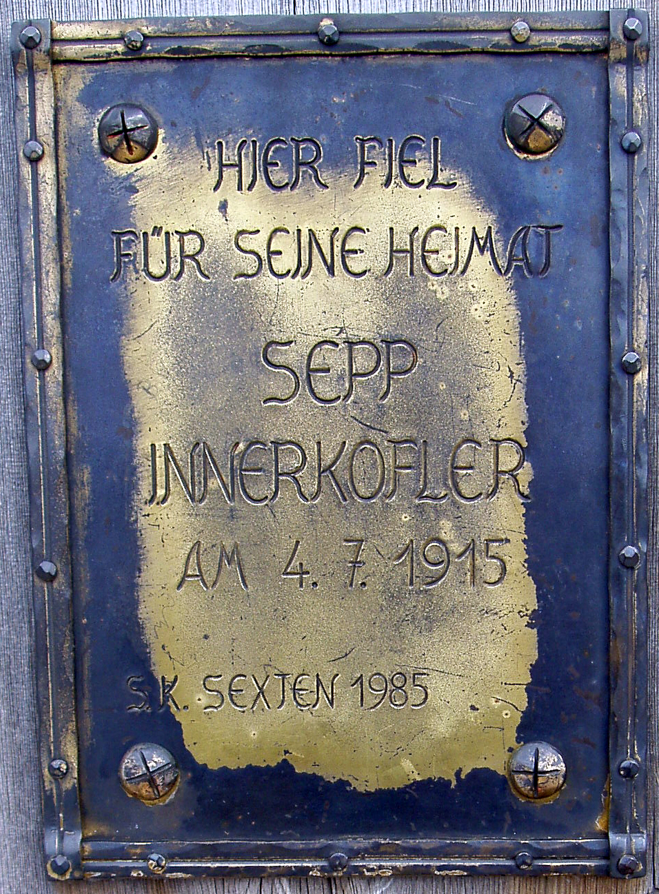 Memorial table at the summit of Paternkofel for Sepp Innerkofler, the South Tyrolian mountain guide, climber and struggler for freedom of his native place